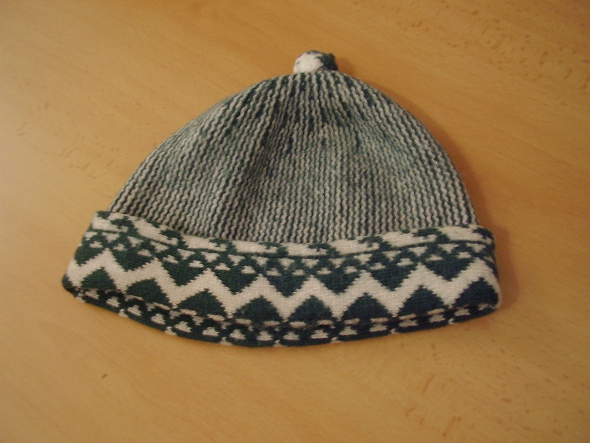 "Budajka" (Budaj´s cap) - one of symbols of Velvet revolution.